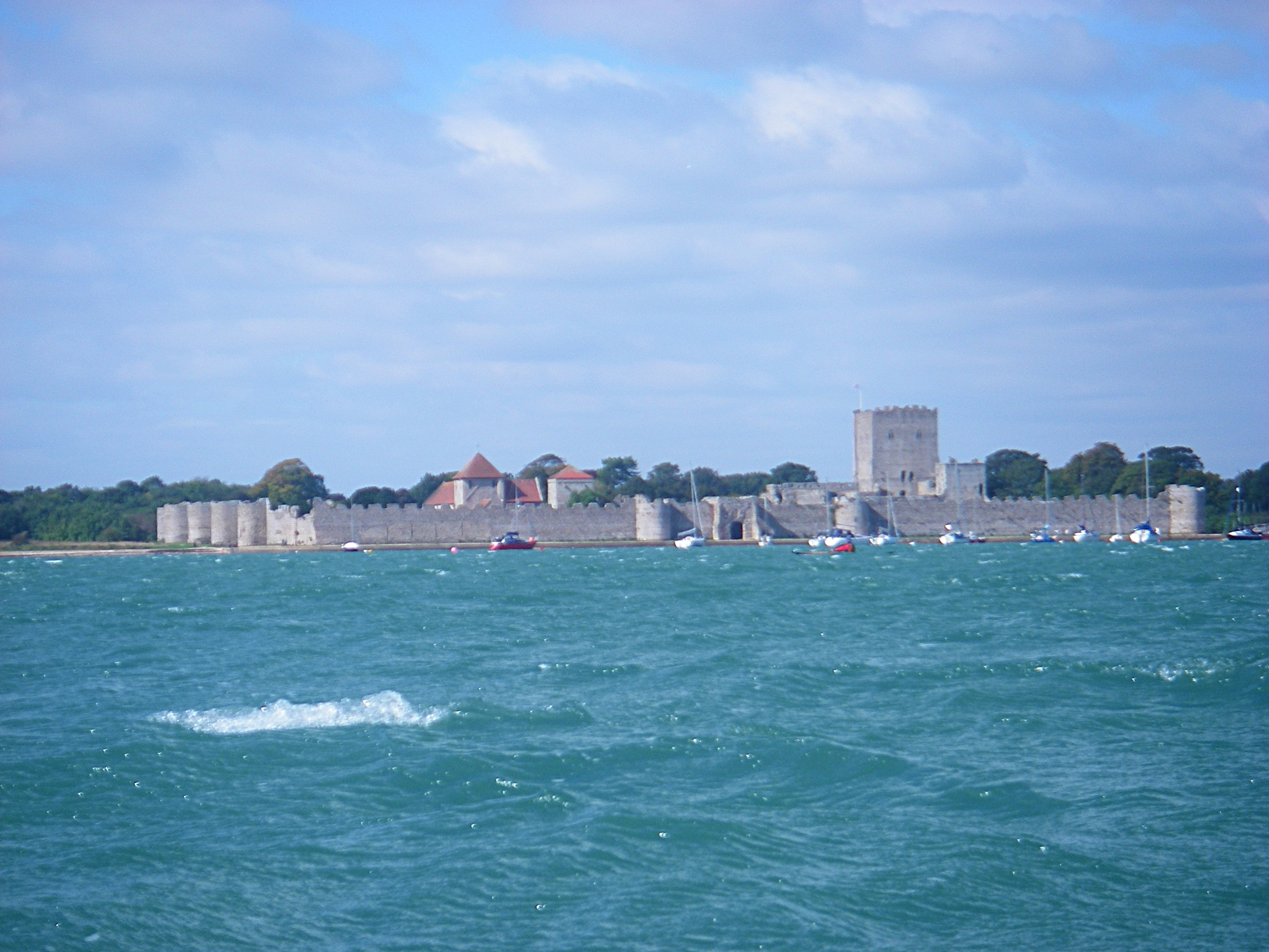 Portchester Castle - East side